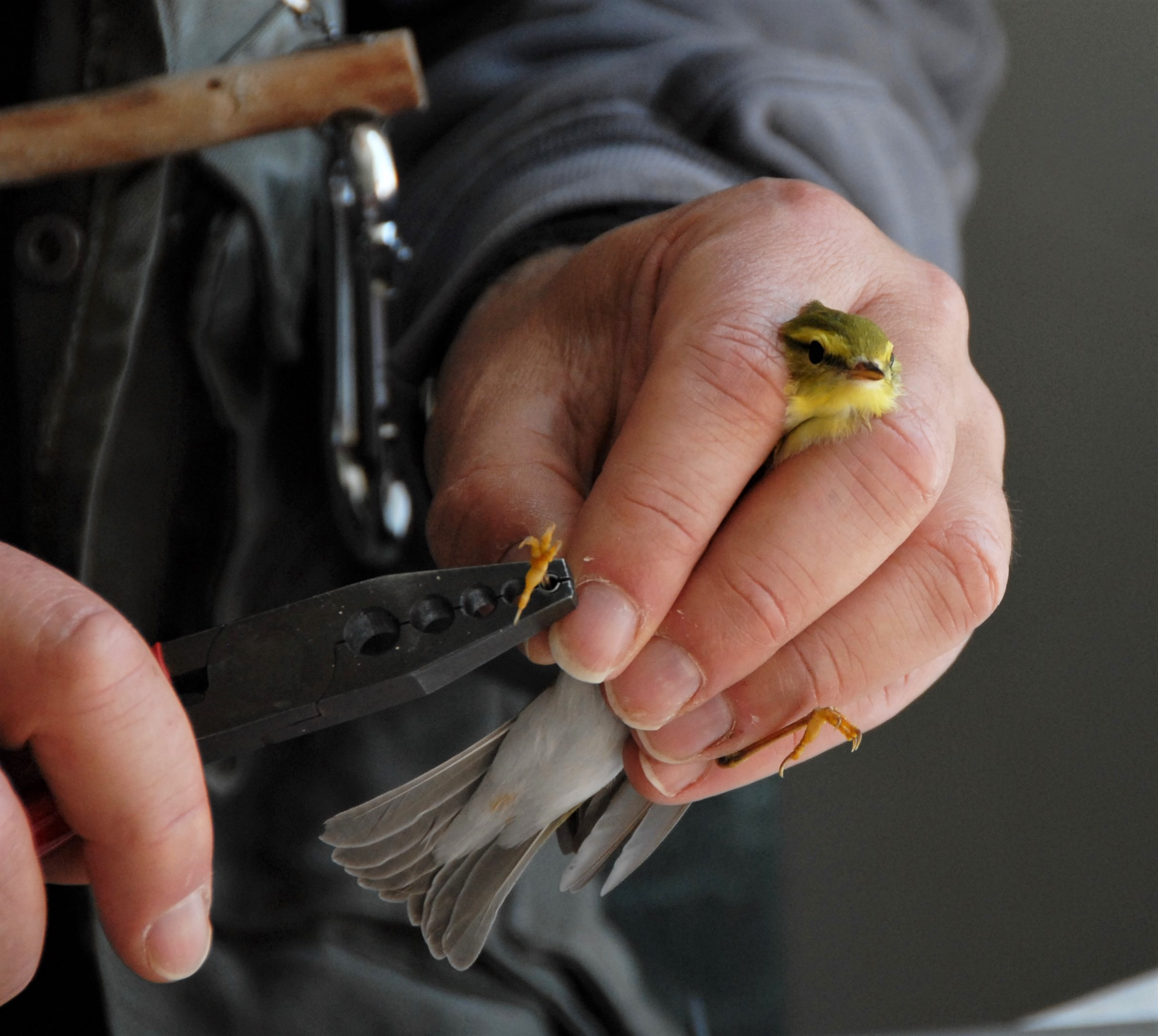 A wood warbler during the ringing/banding process at the bird observatory on the Island of Ventotene.